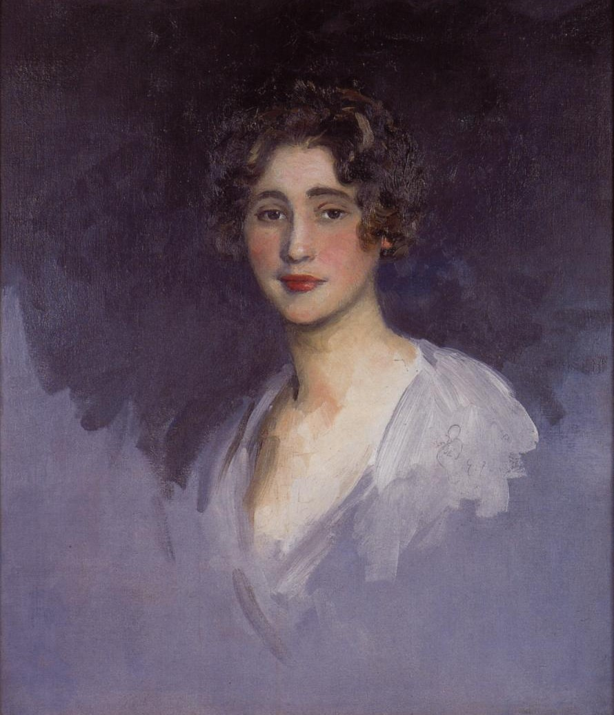 Head of a Young Woman, 1919